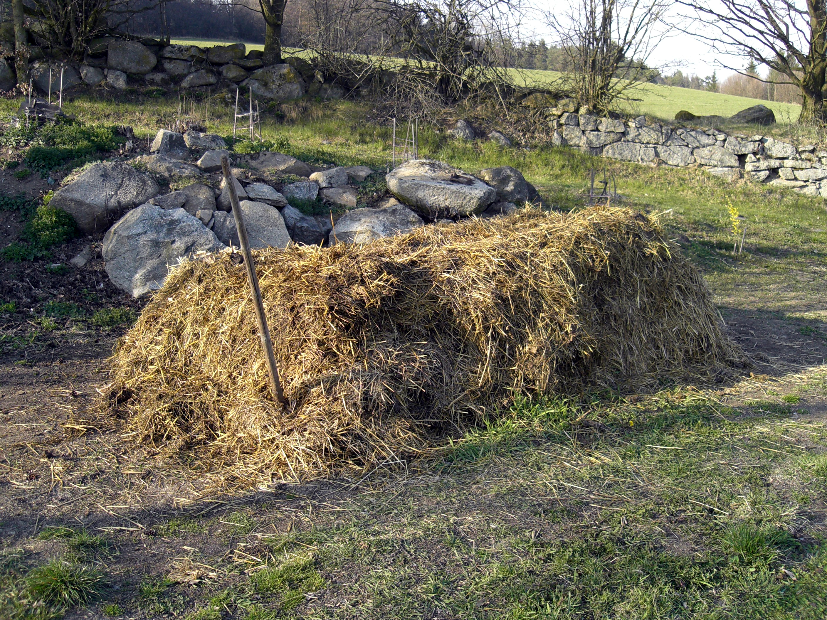 Manure. Czech countryside